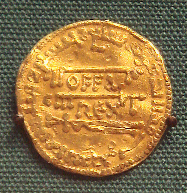 Offa_king_of_Mercia_757_793_gold_dinar_copy_of_dinar_of_the_Abassid_Caliphate_774 Mercian gold dinar imitating a gold dinar of Abbasid caliph al-Mansur, copying the Arabic inscription. The script was copied without understanding it, possibly without even realizing it represents writing, but it is good enough to reconstruct the reading of the coin it was copied from; this was apparently struck in AH 156 (AD 773/4), which date thus serves as a terminus post quem for the Anglo-Saxon copy. The inscription OFFA REX was inserted upside down into the three central lines reading Muhammadu / rasulu / llahi. literature: C.E. Blunt, 'The coinage of Offa' in Anglo-Saxon coins (London, Methuen, 1961) L. Webster and J. Backhouse, The making of England: Anglo-S, exh. cat. (London, The British Museum Press, 1991) see also